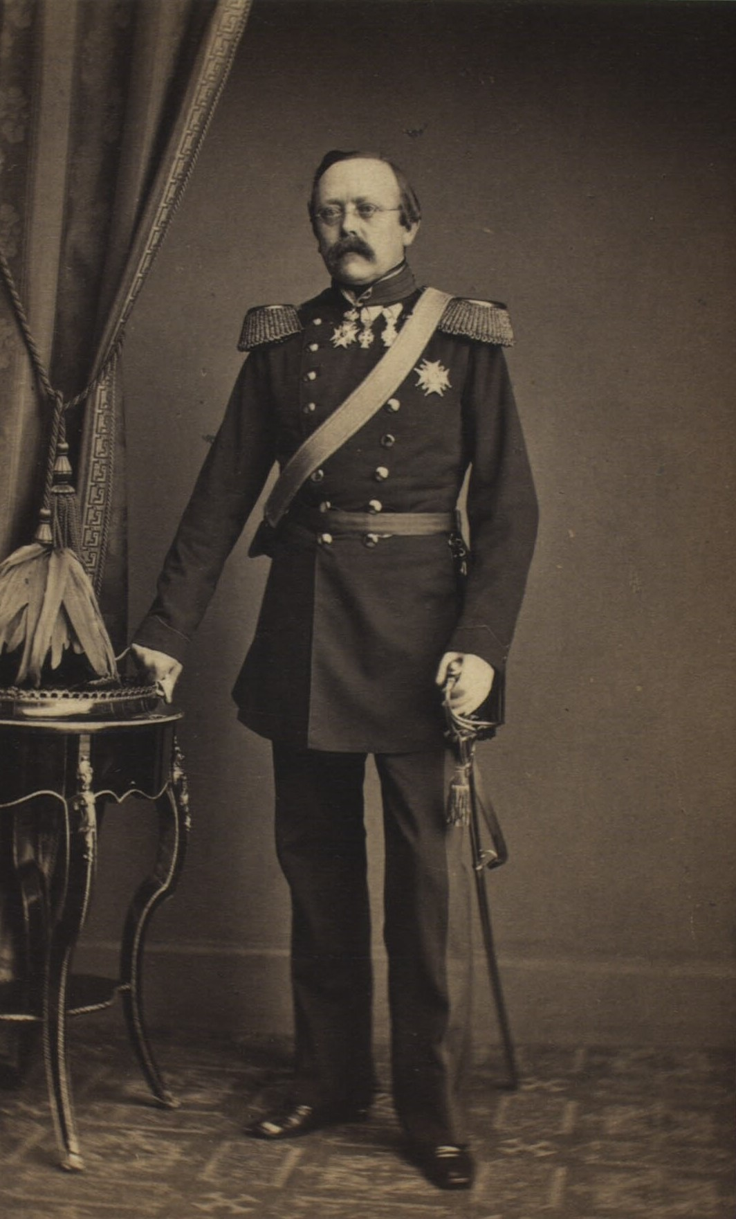 Christian Emilius Reich (1822-1865), Danish Army Officer and Minister of War